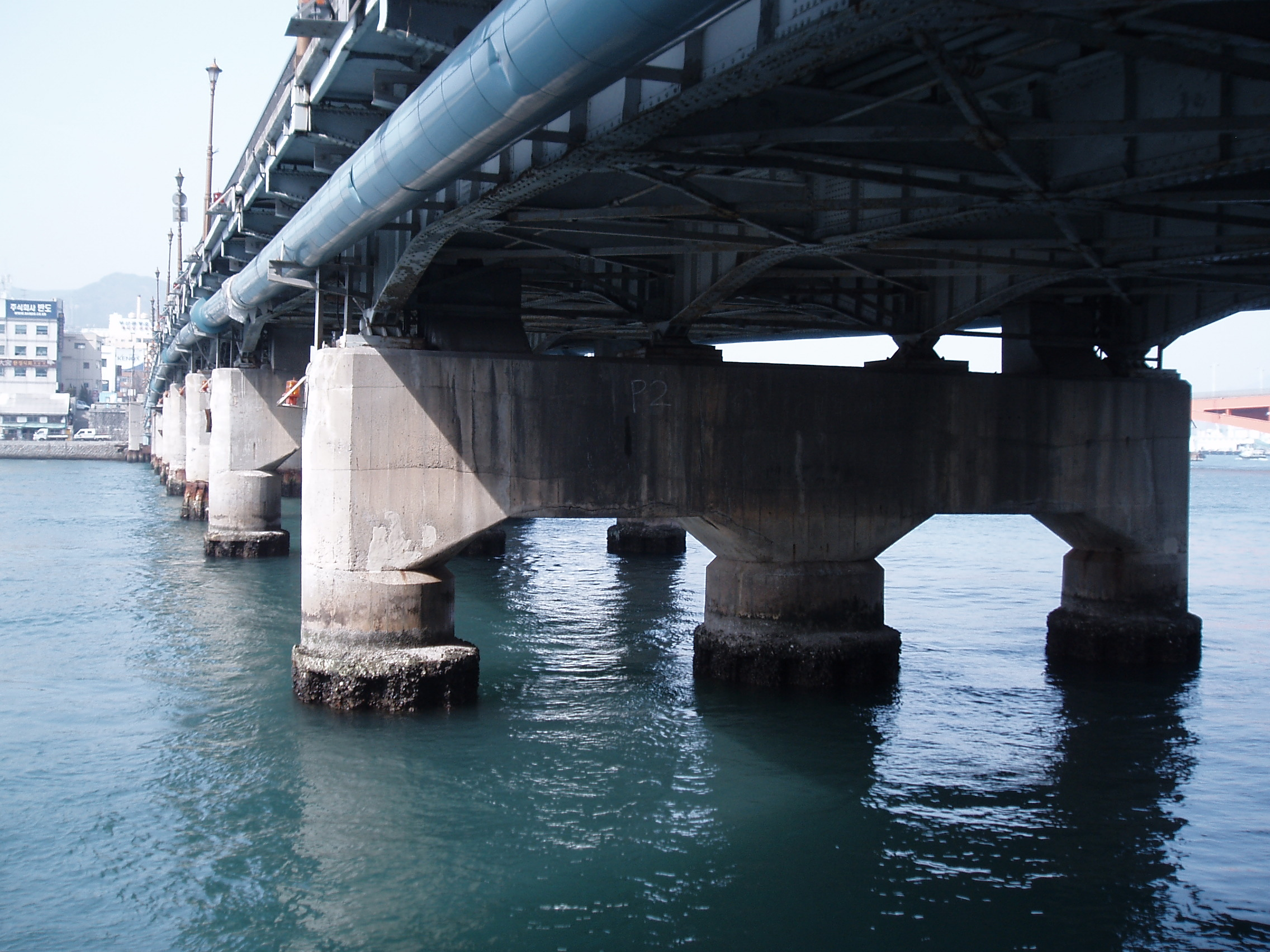 View under Yeongdo Bridge in Busan